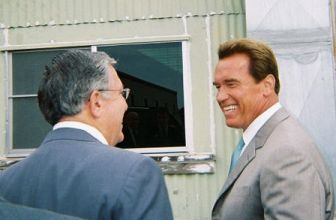 I took this picture on June 3, 2006